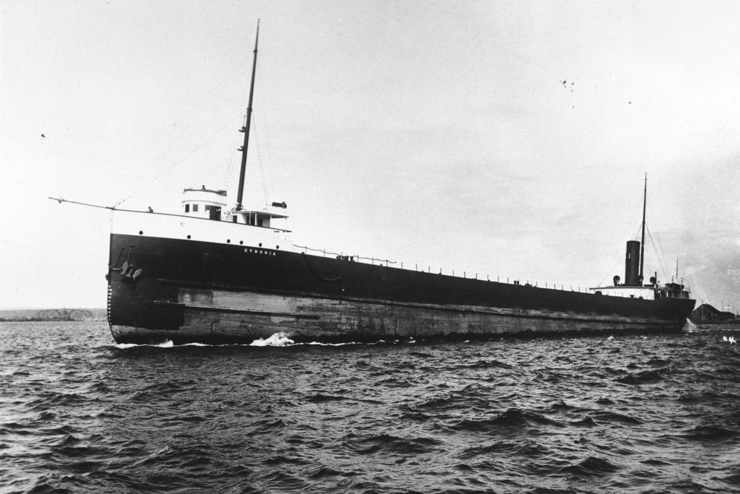 The steamer Etruria before she sank